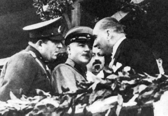 Mustafa Kemal Atatürk with Kliment Voroshilov. Kemal Atatürk (or alternatively written as Kamâl Atatürk, Mustafa Kemal Pasha until 1934, commonly referred to as Mustafa Kemal Atatürk; 1881 – 10 November 1938) was a Turkish field marshal, revolutionary statesman, author, and the founding father of the Republic of Turkey, serving as its first President from 1923 until his death in 1938. He undertook sweeping progressive reforms, which modernized Turkey into a secular, industrial nation. Ideologically a secularist and nationalist, his policies and theories became known as Kemalism. Due to his military and political accomplishments, Atatürk is regarded as one of the most important political leaders of the 20th century.